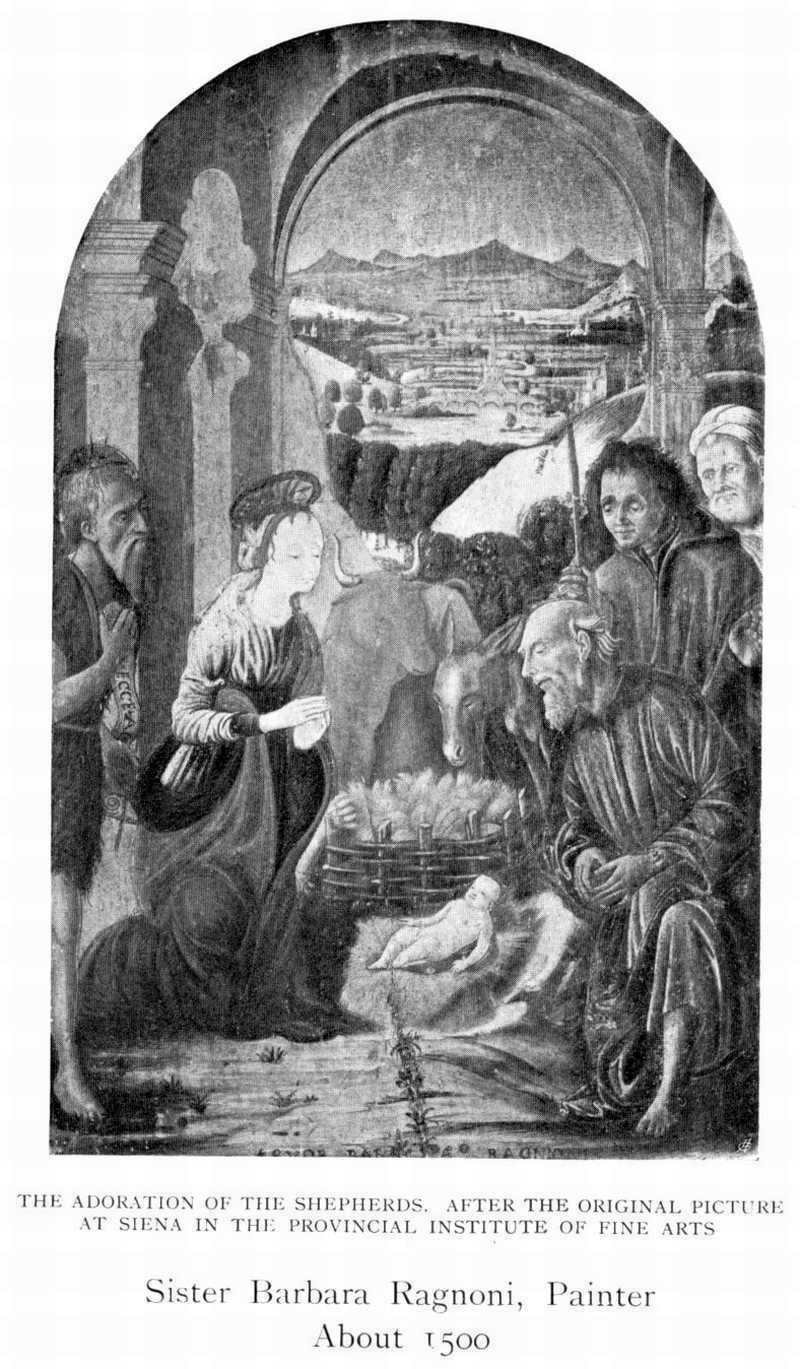 1905 print after page of Women painters of the world, from the time of Caterina Vigri, 1413-1463, to Rosa Bonheur and the present day, by Walter Shaw Sparrow, The Art and Life Library, Hodder & Stoughton, 27 Paternoster Row, London